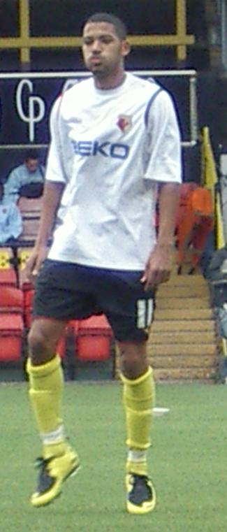 A photo of Jobi McAnuff taken at Watford vs Sheff Utd on 18th August 2007